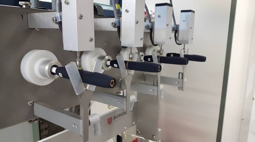 E-cigarette smoking machine with heated tobacco products. The emissions from four electrically-heated cigarettes are being sampled in parallel